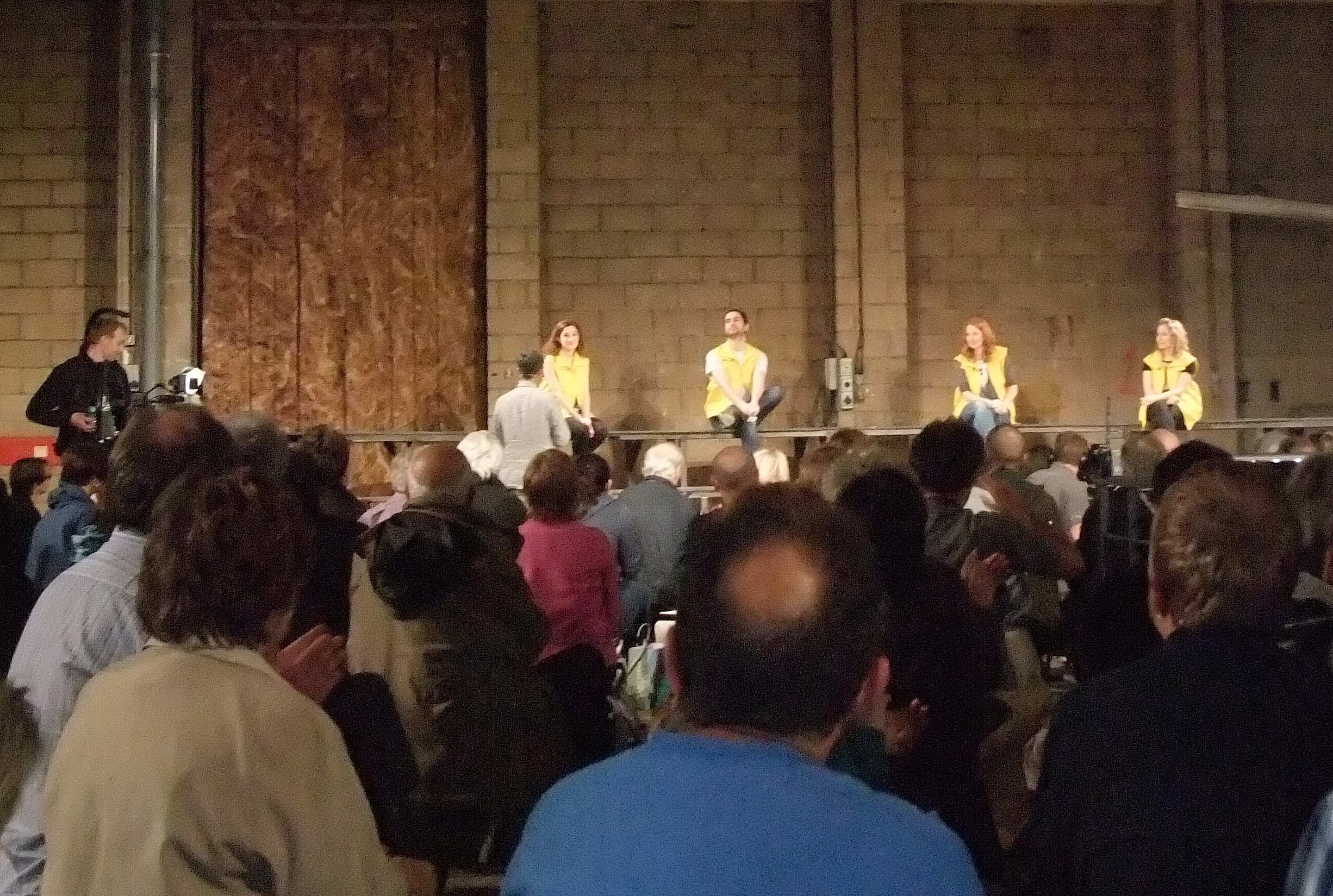 Karlheinz Stockhausen's Helicopter String Quartet, scene 3 of the opera Mittwoch aus Licht, in the staged production by the Birmingham Opera at the Argyle Works, Digbeth, Birmingham, on 23 August 2012. The Elysian Quartet (left to right: Laura Moody, cello; Vincent Sipprell, viola; Jennymay Logan, second violin; Emma Smith, first violin) is introduced by DJ Nihal (back to camera). At far left: camera operator Tom Slee. Photograph by Jerome Kohl.